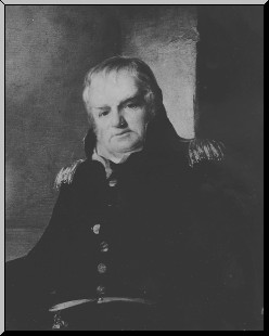 Colonel Jonathan Williams, Chief Engineer and First Superintendent of West Point.